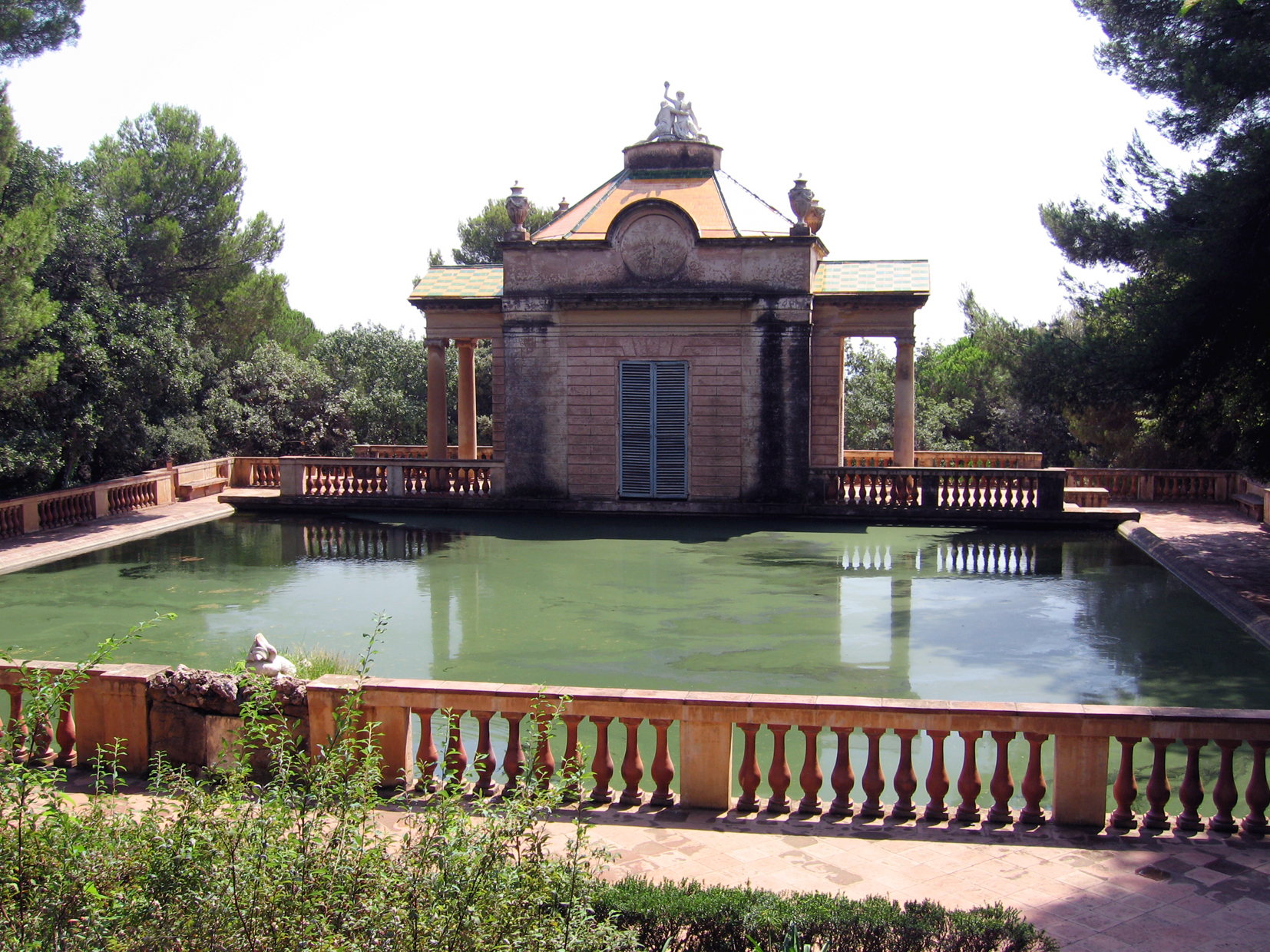 Ornamental pond and neoclassical pavilion in the Parc del Laberint d’Horta In Barcelona, Catalonia, Spain.